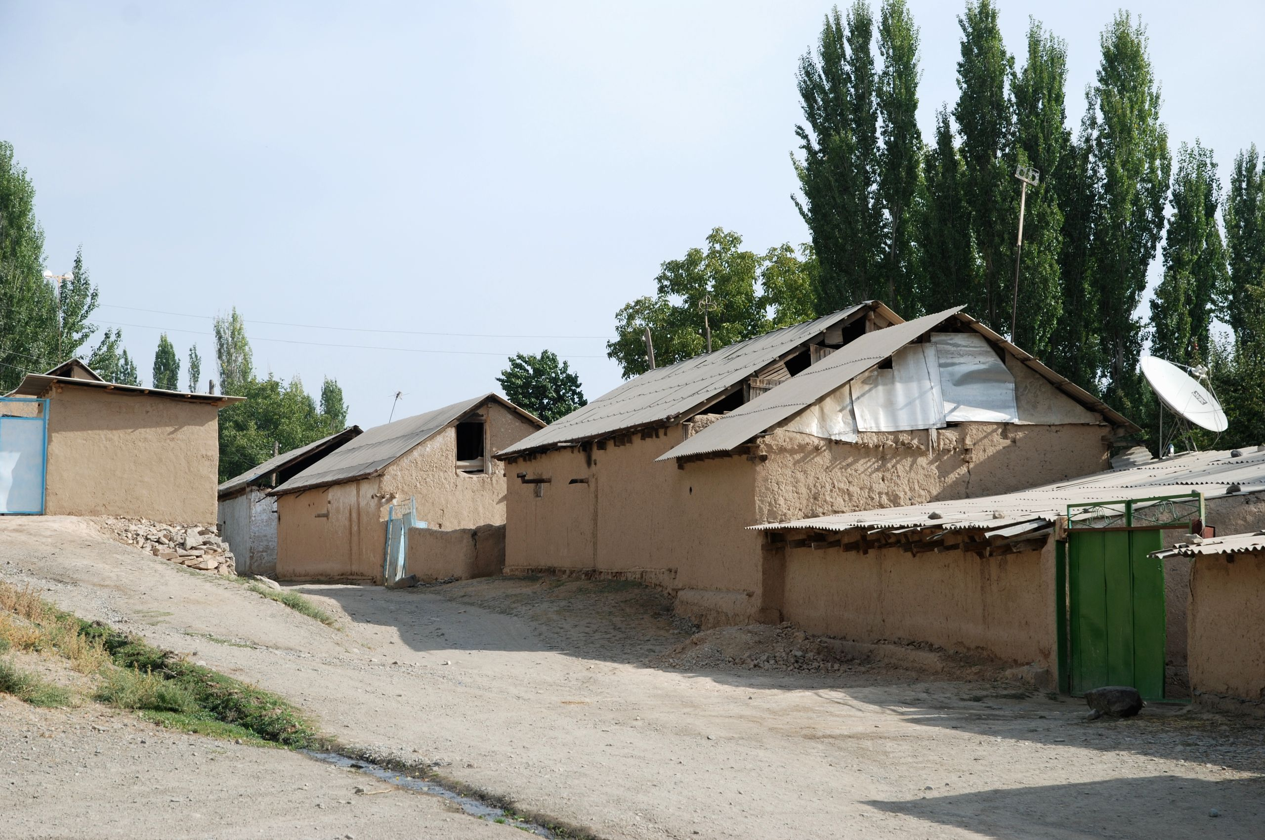 Shahriston, Sughd province